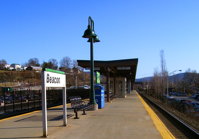 Photographed by Daniel Case 2006-03-17